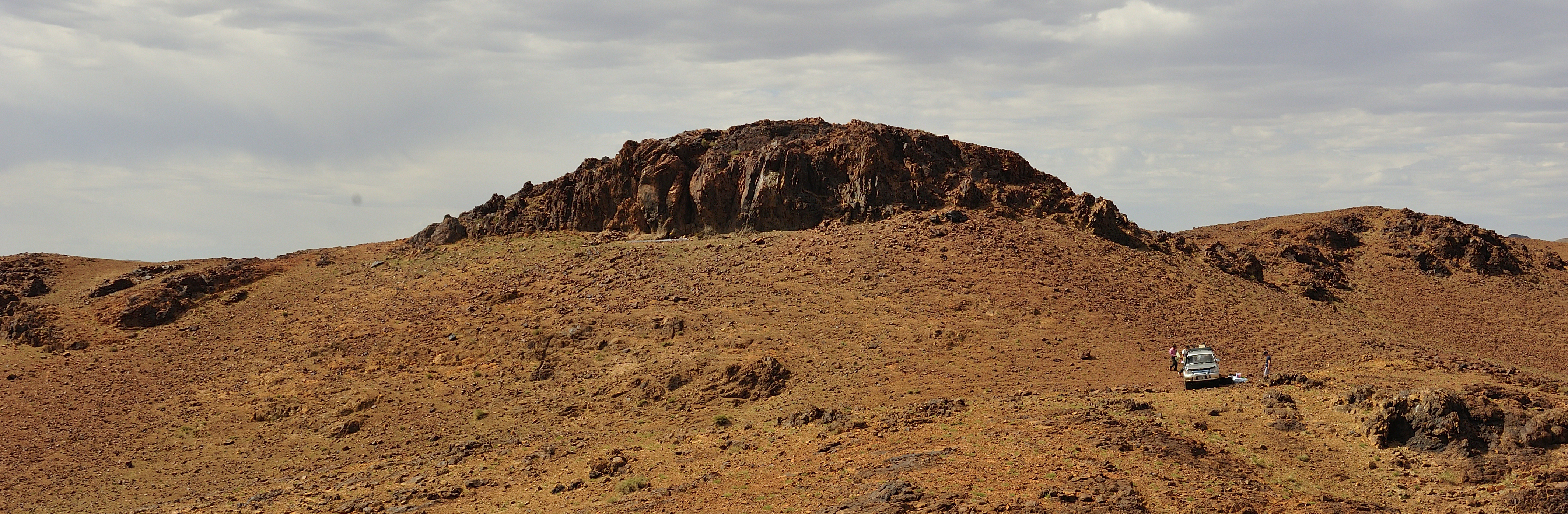 This cliff lies on the Baruun ilgen hills